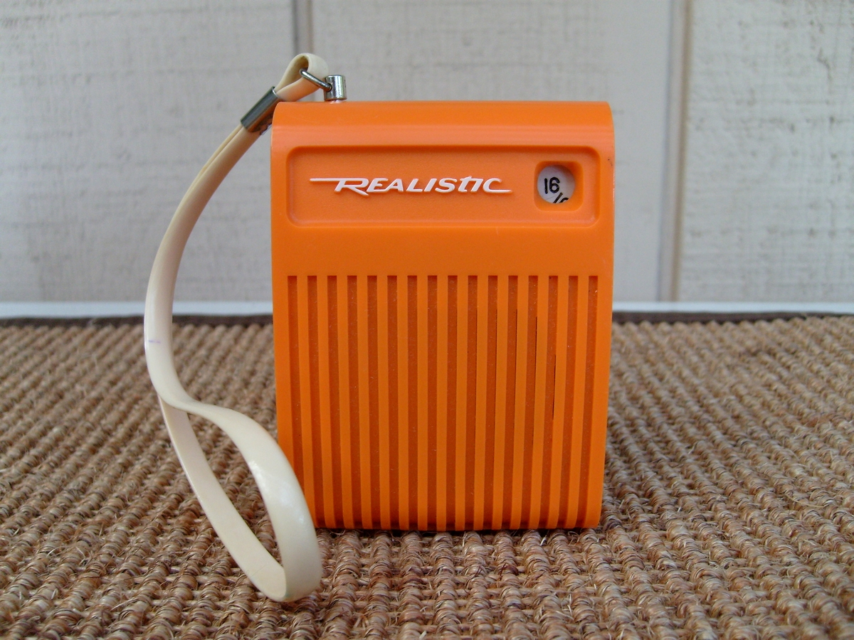 AM pocket radio from the seventies. I bought this for my wife. Good sound and reception. Tastes like plastic.